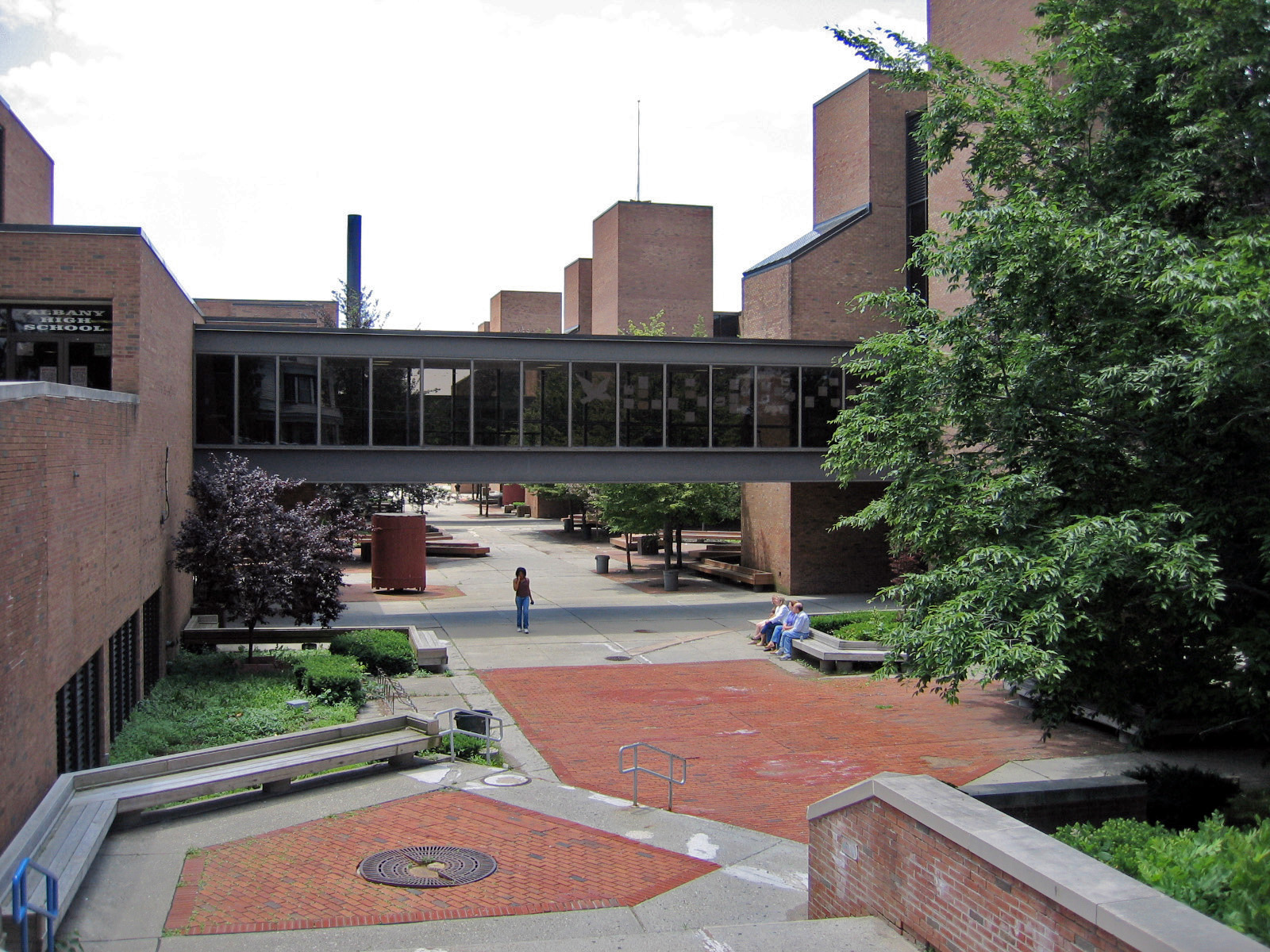 The central courtyard of Albany High School in Albany, New York, United States